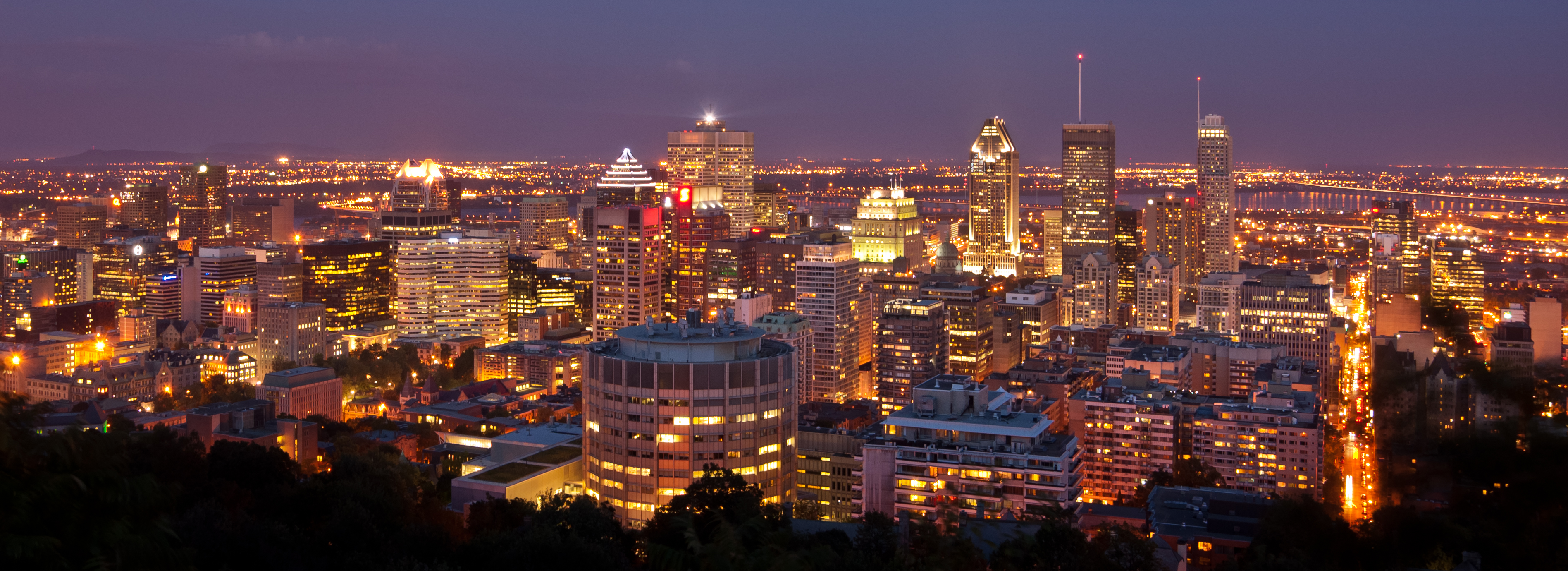 Night view of Montreal from "Belvedere Kondiaronk, chalet du Mont Royal".